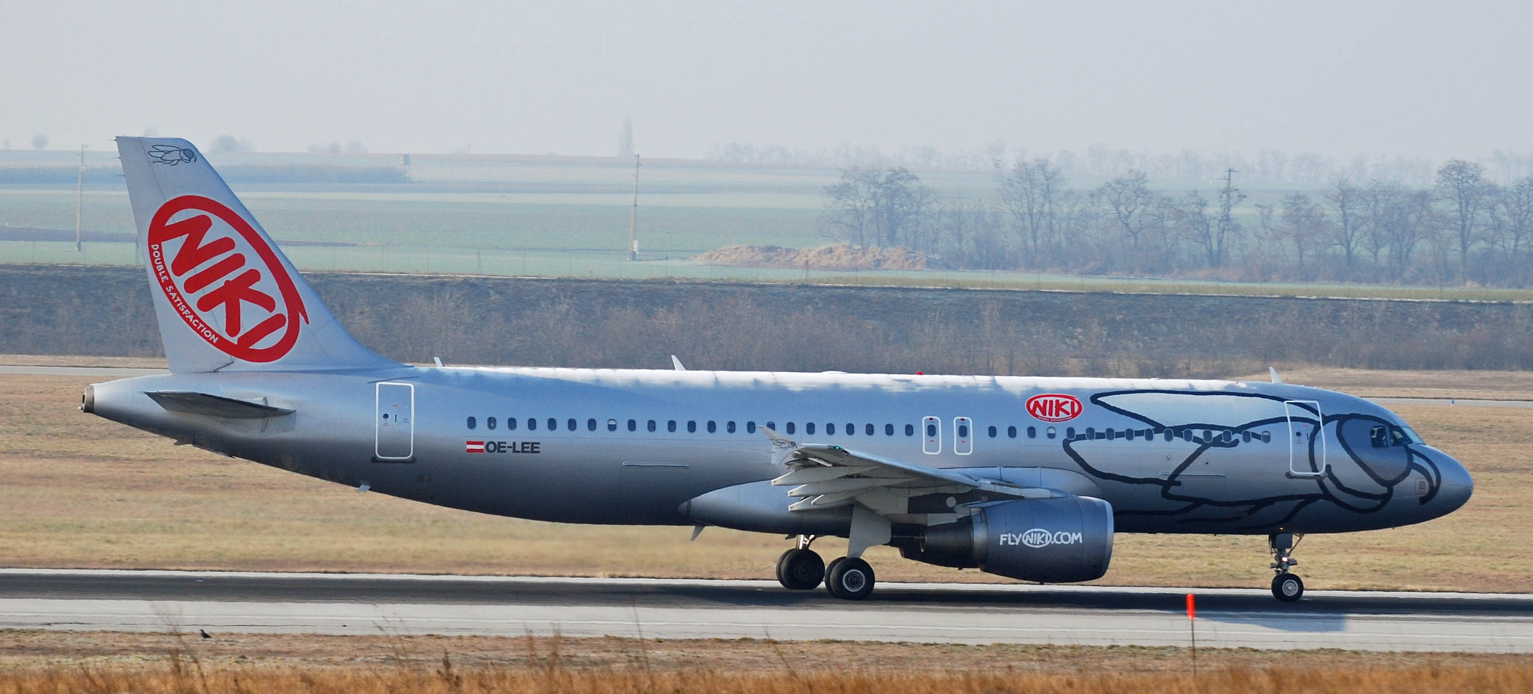 Niki Airbus A320 in Wien Schwechat